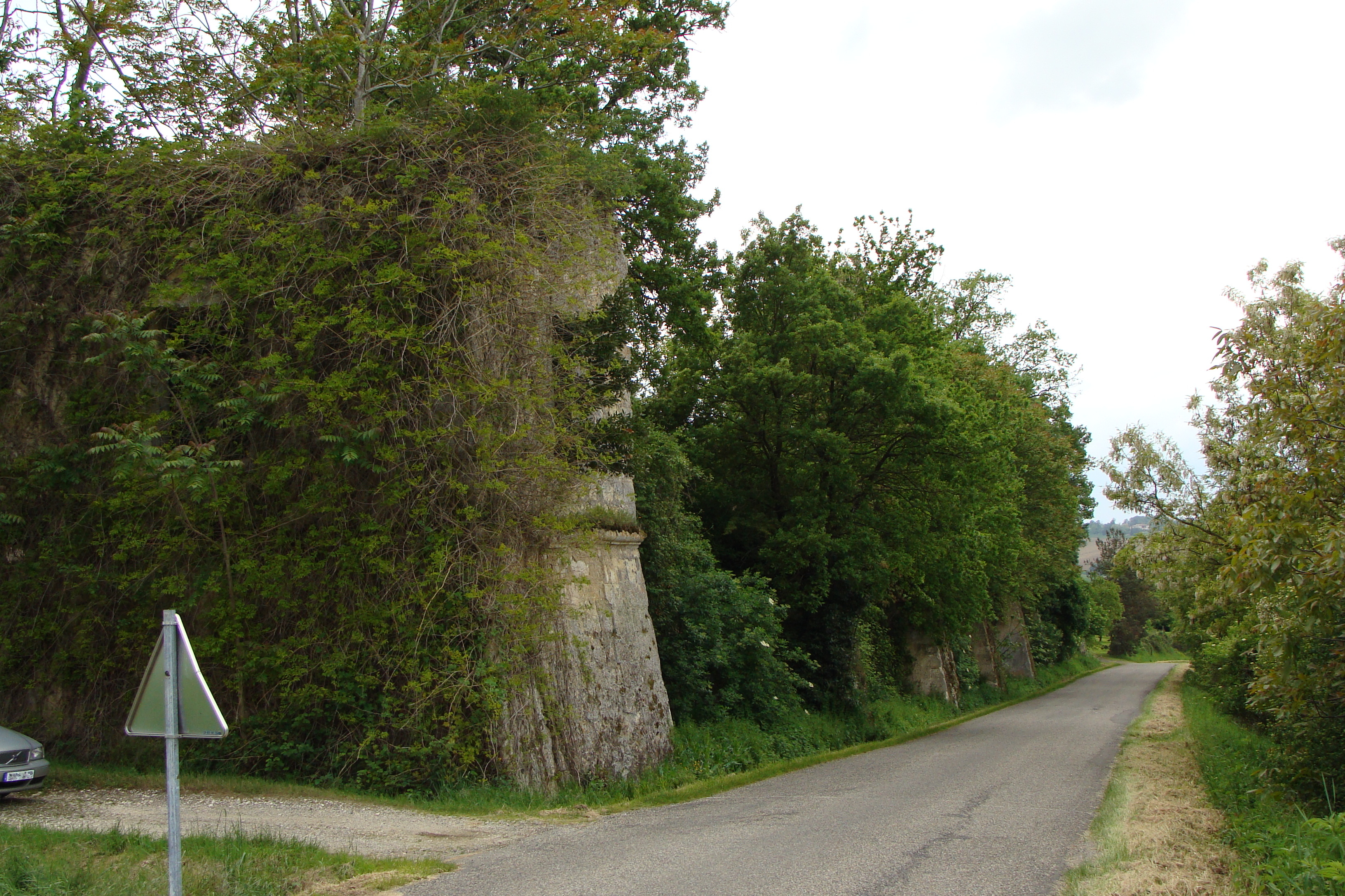 Tower of Roquelaure fort on Departamental Route 272.